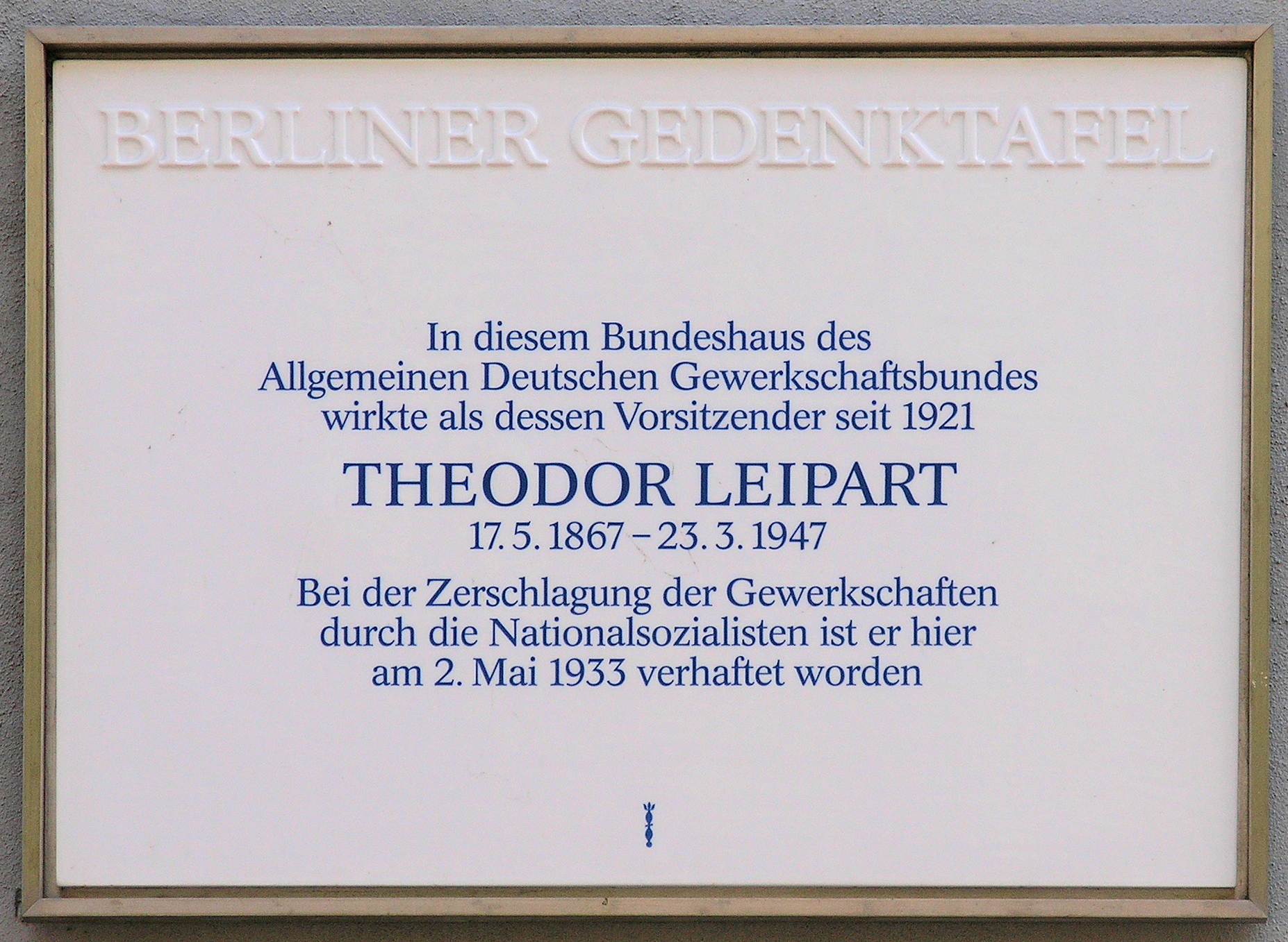 Berlin memorial plaque, Theodor Leipart, Inselstraße 6, Berlin-Mitte, Germany Koordinate:52°30′44.7″N 13°24′41.4″E / 52.512417°N 13.4115°E